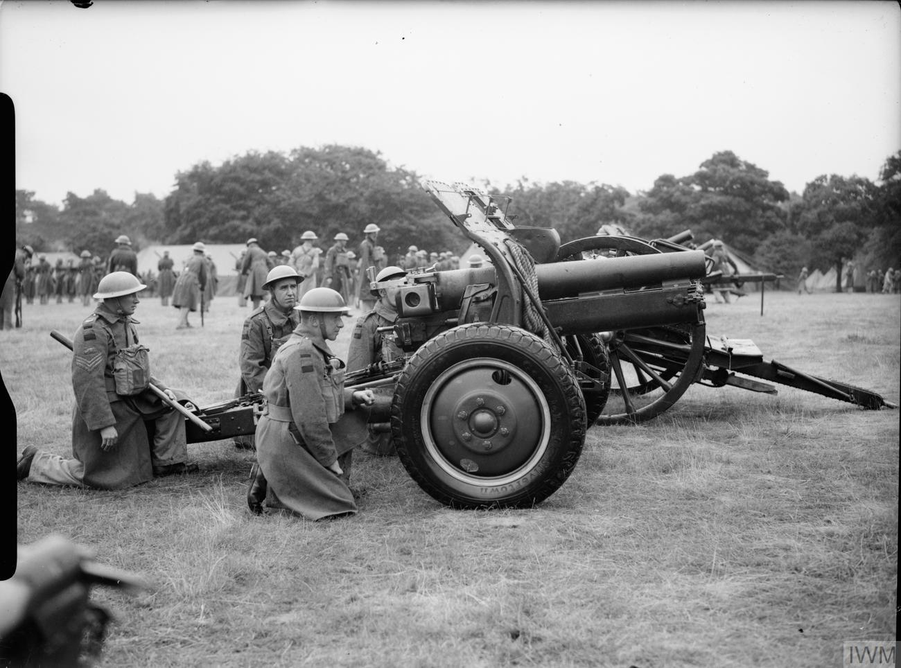 Dominion and Empire Forces in the United Kingdom, 1939-45 4.5-inch howitzer of the New Zealand Expeditionary Force during an inspection by King George VI at Burley in the New Forest, Hampshire, 6 July 1940.